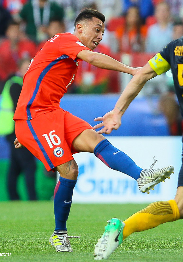 Chile VS. Australia 1 - 1, 25 June 2017